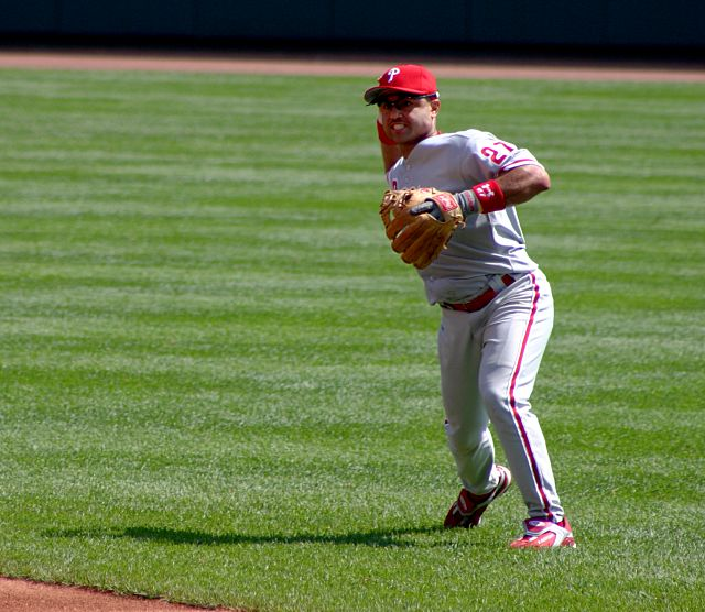 Baseball, Second baseman, Plácido Polanco, 2004, by Rick Dikeman 01:52, 16 September 2004 . . Rdikeman . . 640×556 (71,389 bytes)